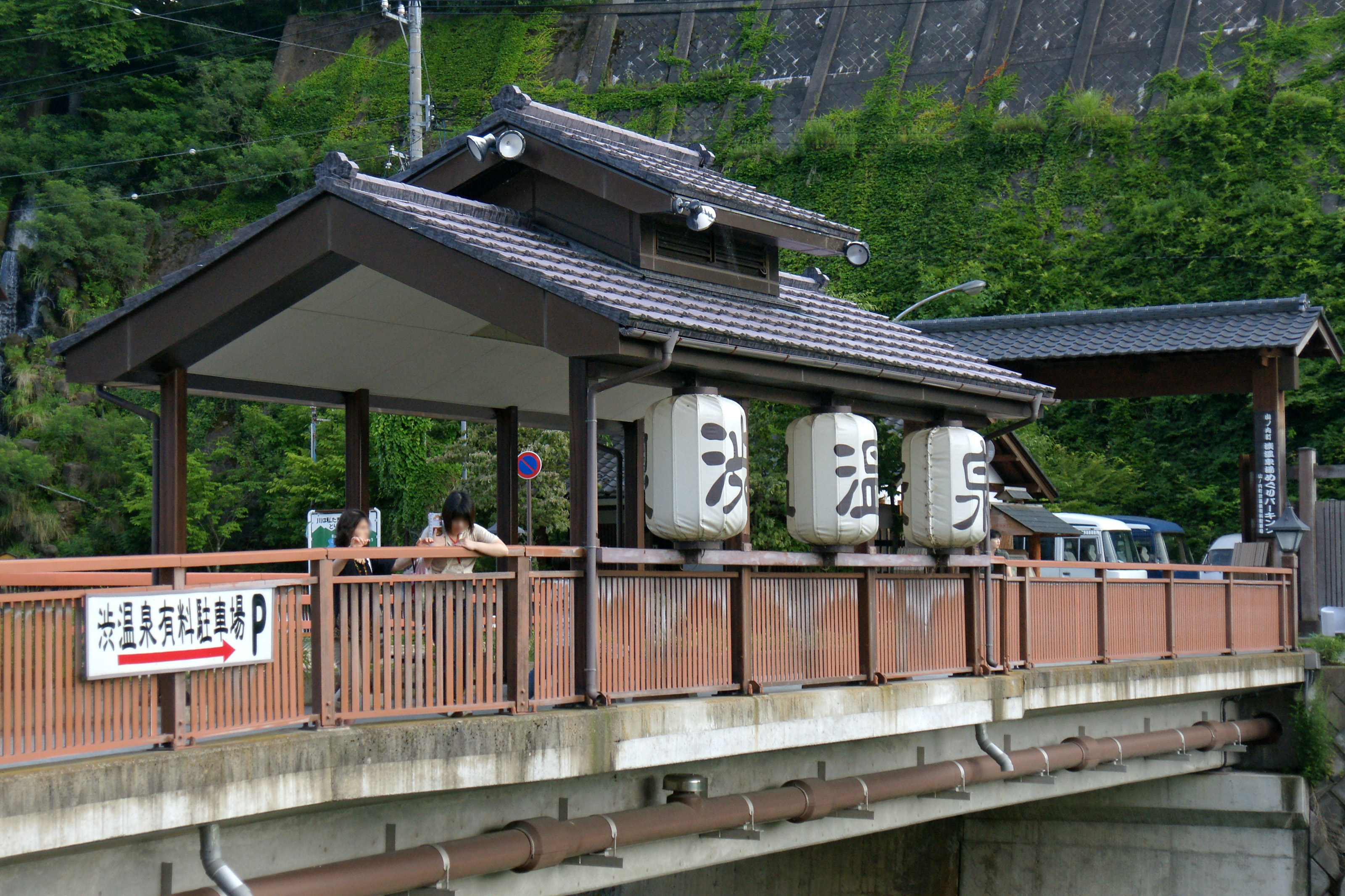 Shibu Onsen ,Yamanouchi, Nagano prefecture, Japan